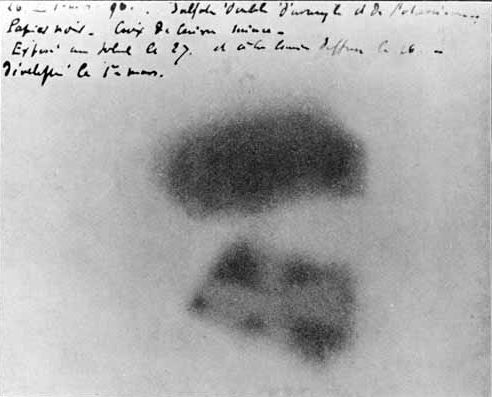 Photographic plate made by Henri Becquerel showing effects of exposure to radioactivity.